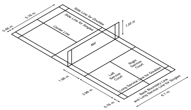 Badminton Court 3D (large) (Original text also include: Source: Created by User:Jari Pennanen 2004 for wikipedia badminton. Alternative view: badminton court top view )